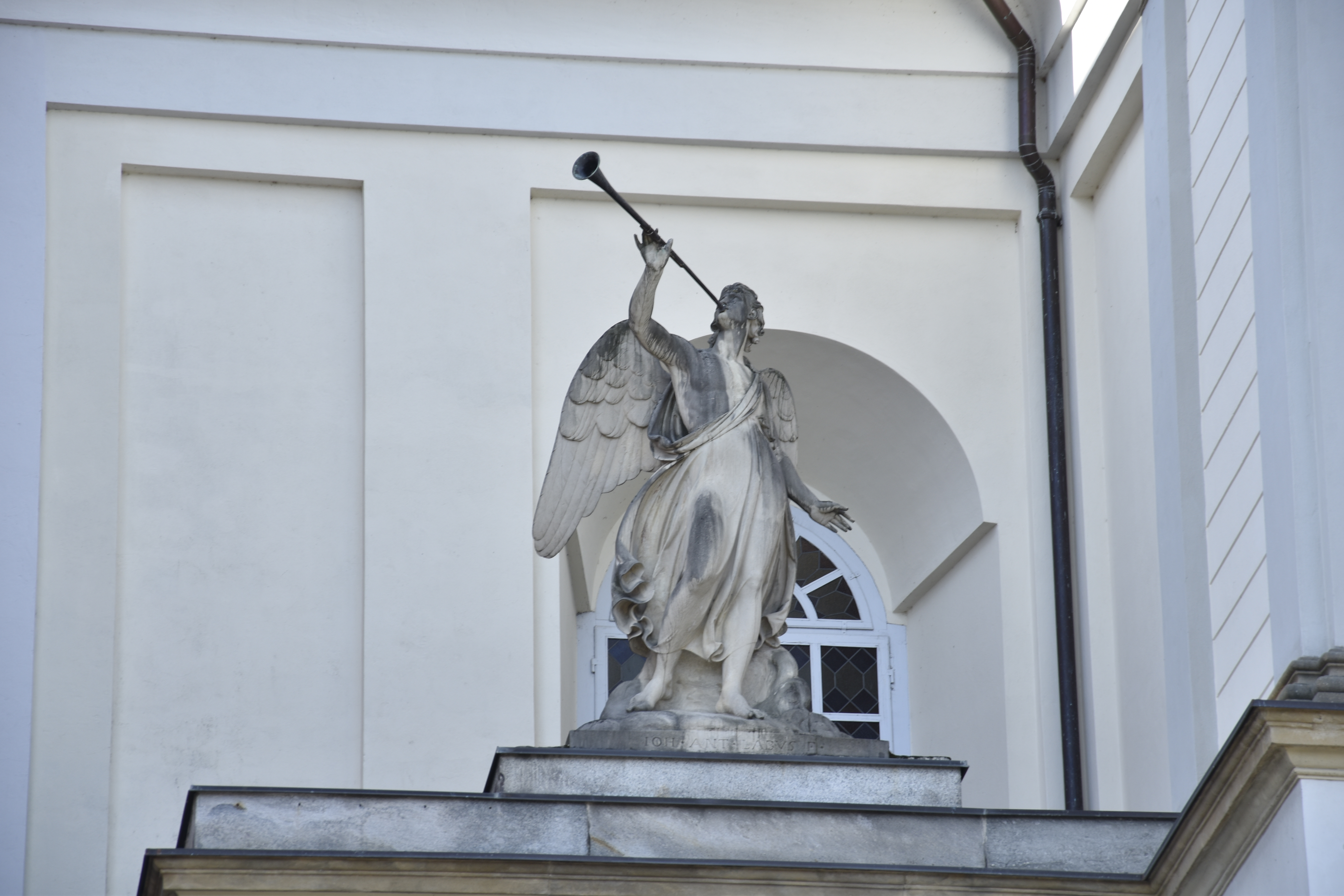 Church of SS Ambrogio and Teodulo detail in Stresa, Italy